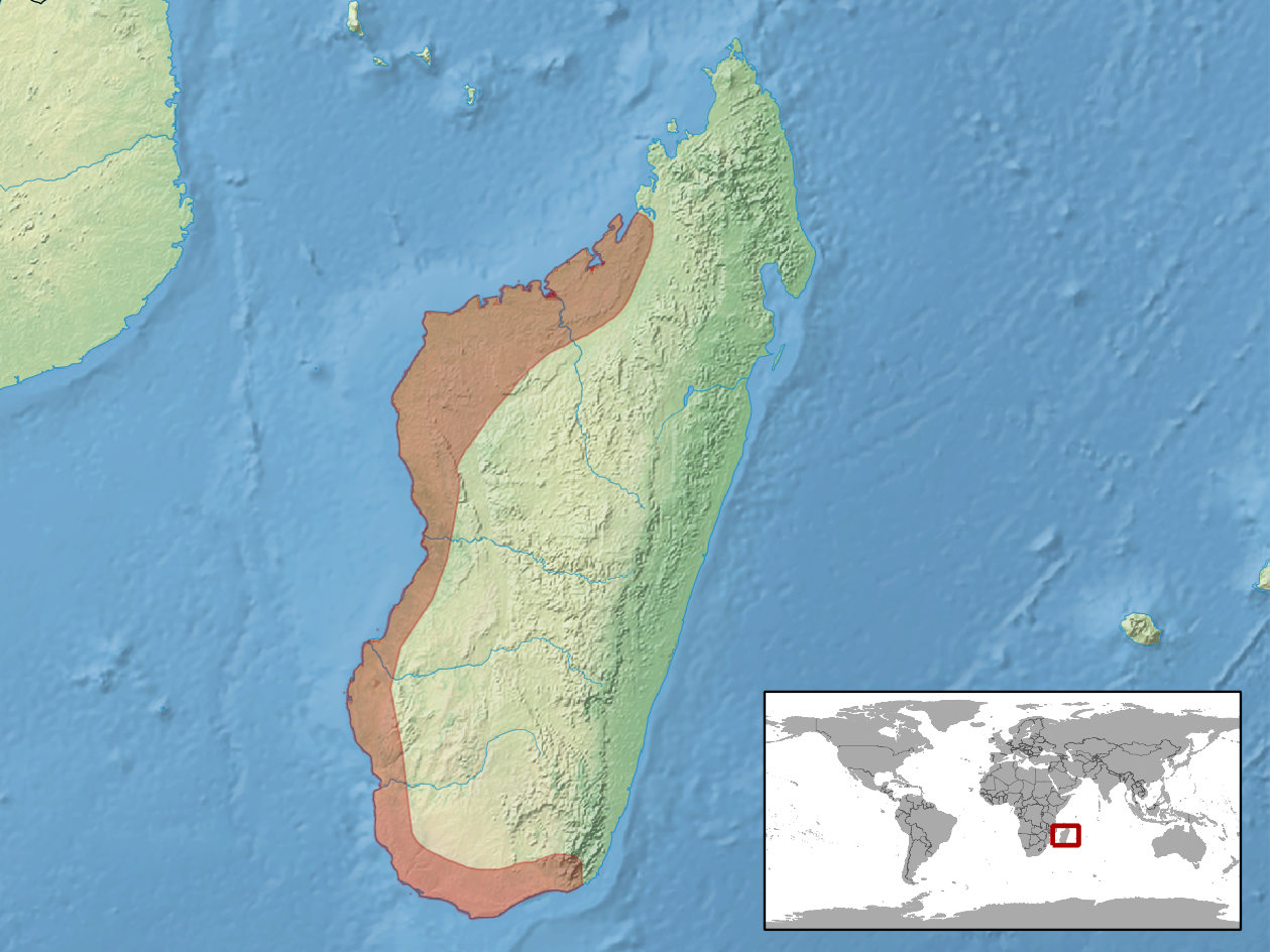 geographic distribution of Blaesodactylus sakalava (Native: Madagascar). This map appears to be inaccurate.[1] Charles (talk) 16:48, 1 January 2019 (UTC)